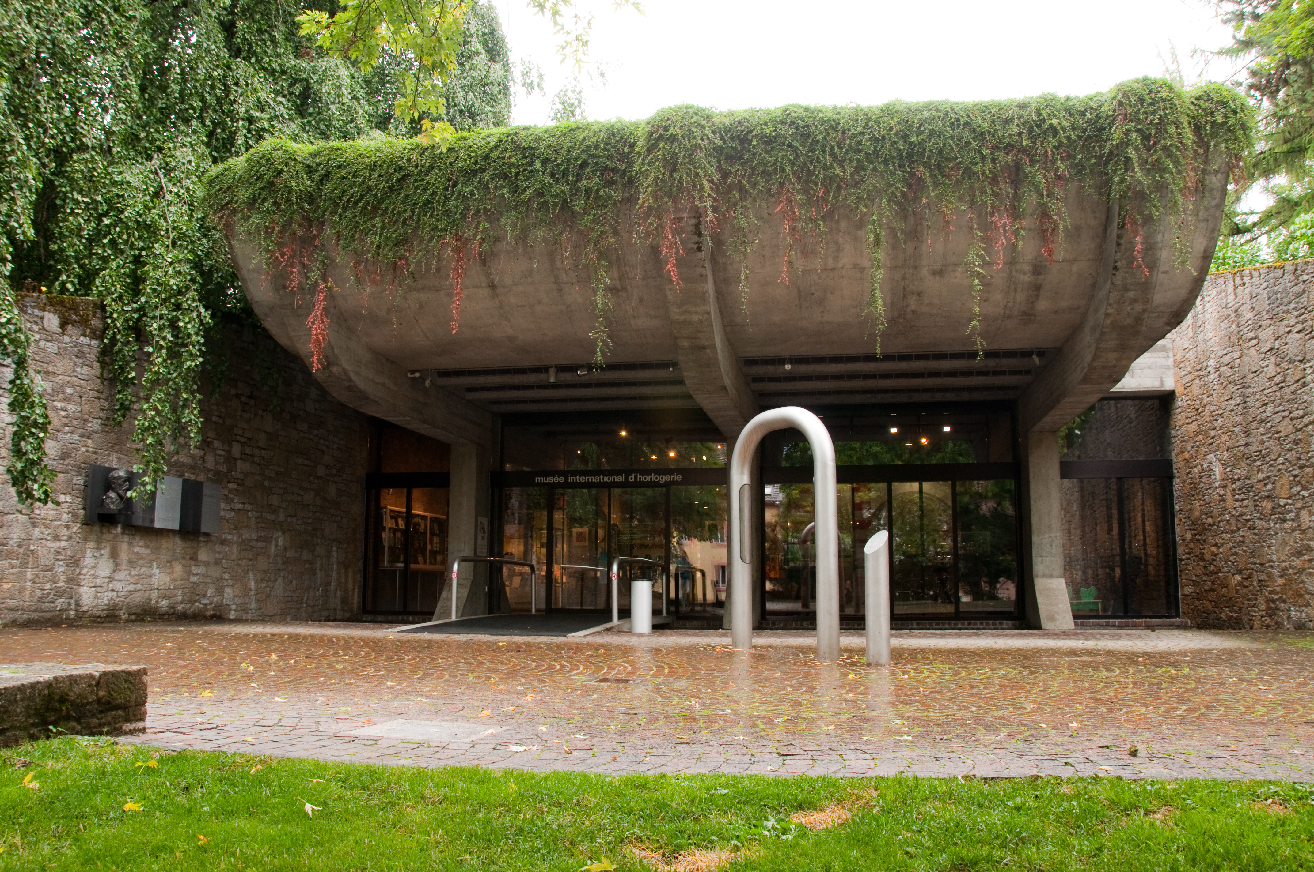 A photo of the main entrance of the International Watch Industry Museum in the town of La Chaux de Fonds, Switzerland